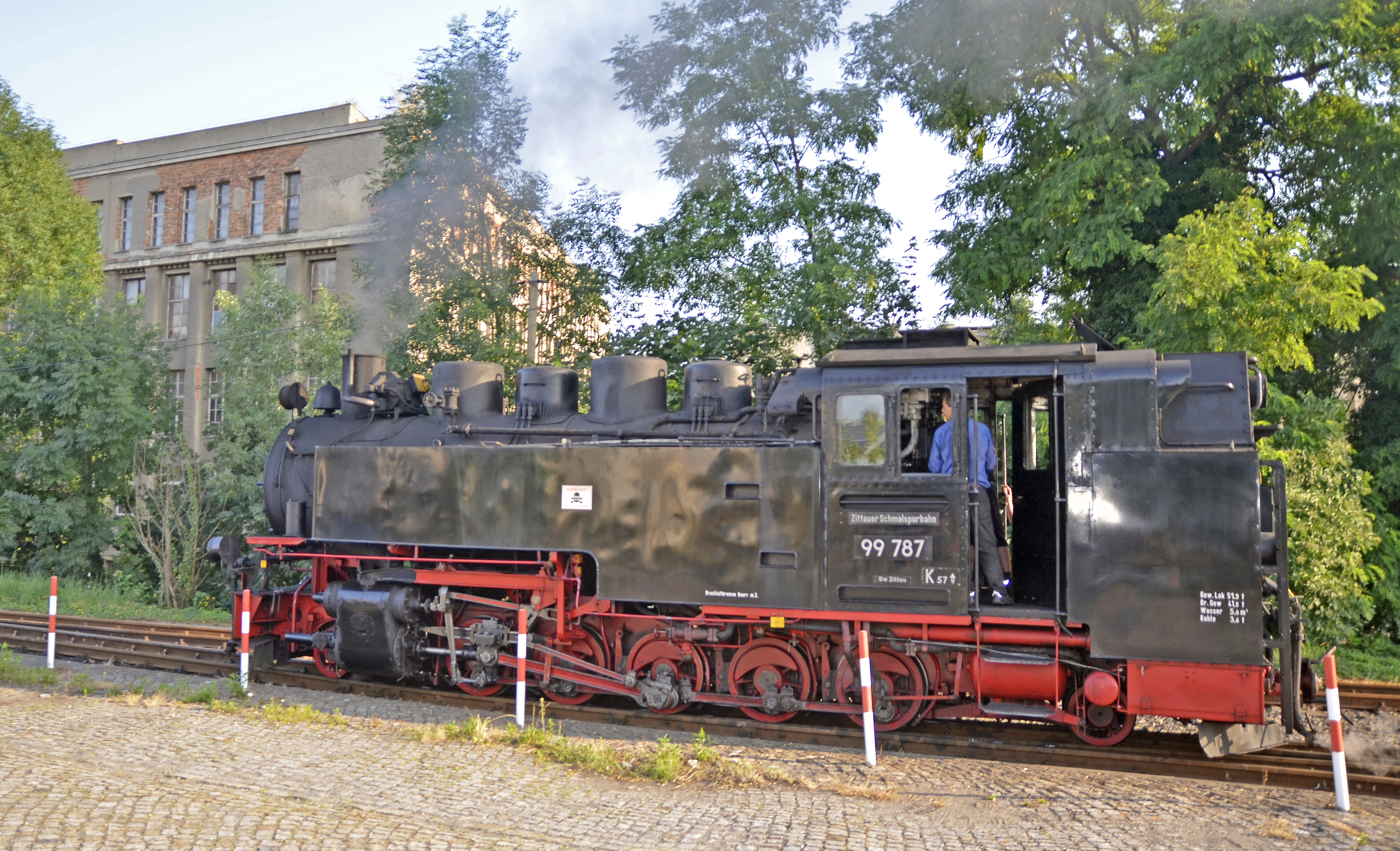 German Lokomotive of the range 99.787